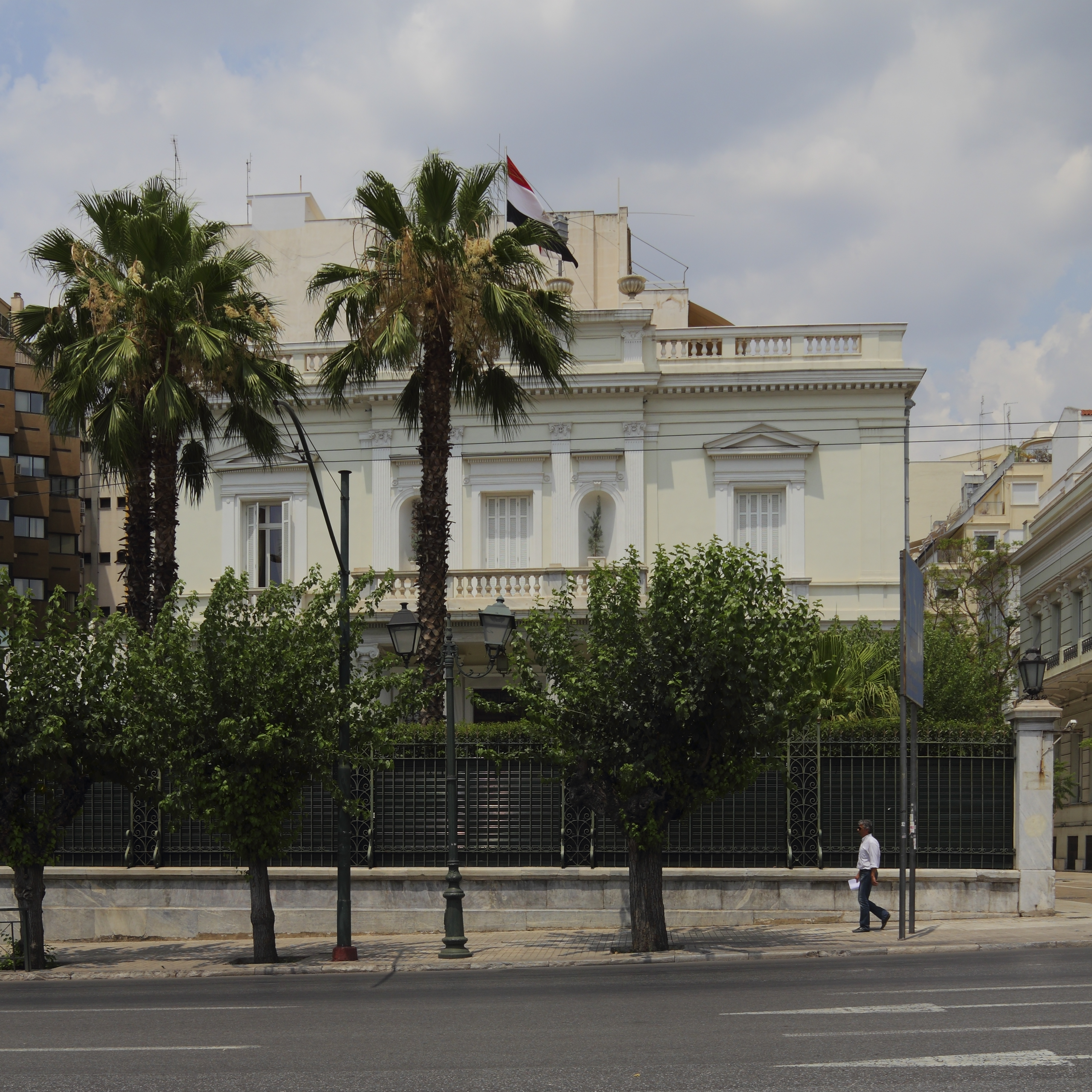 Embassy of Egypt in Athens (Attica, Greece)